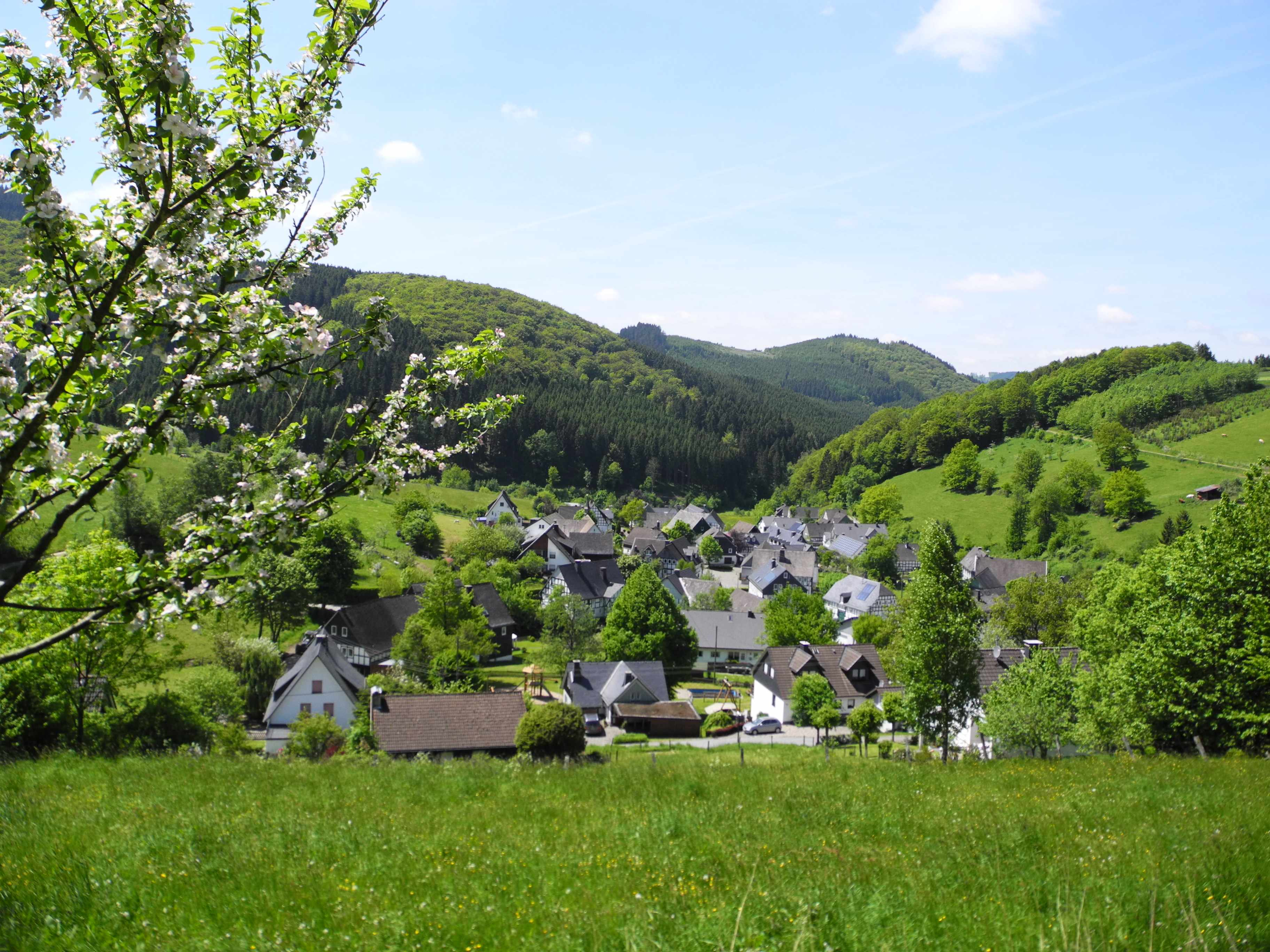 Milchenbach in Germany, summertime